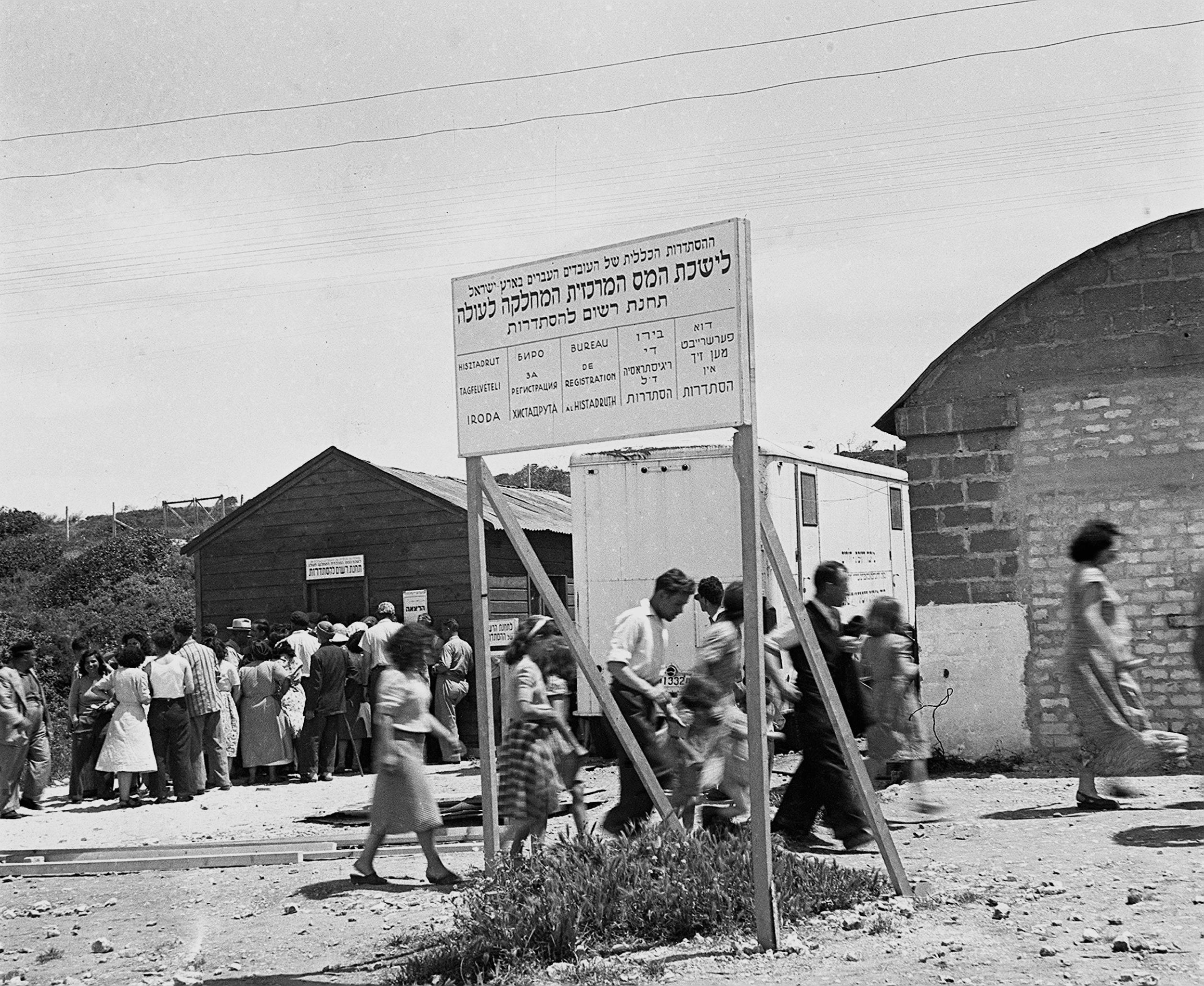 Immigrants outside the Histadrut registration office at the "Shaar Aliya" camp, near Haifa.